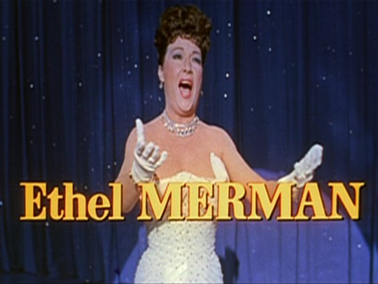 Cropped screenshot of Ethel Merman from the trailer for the film There's No Business Like Show Business.